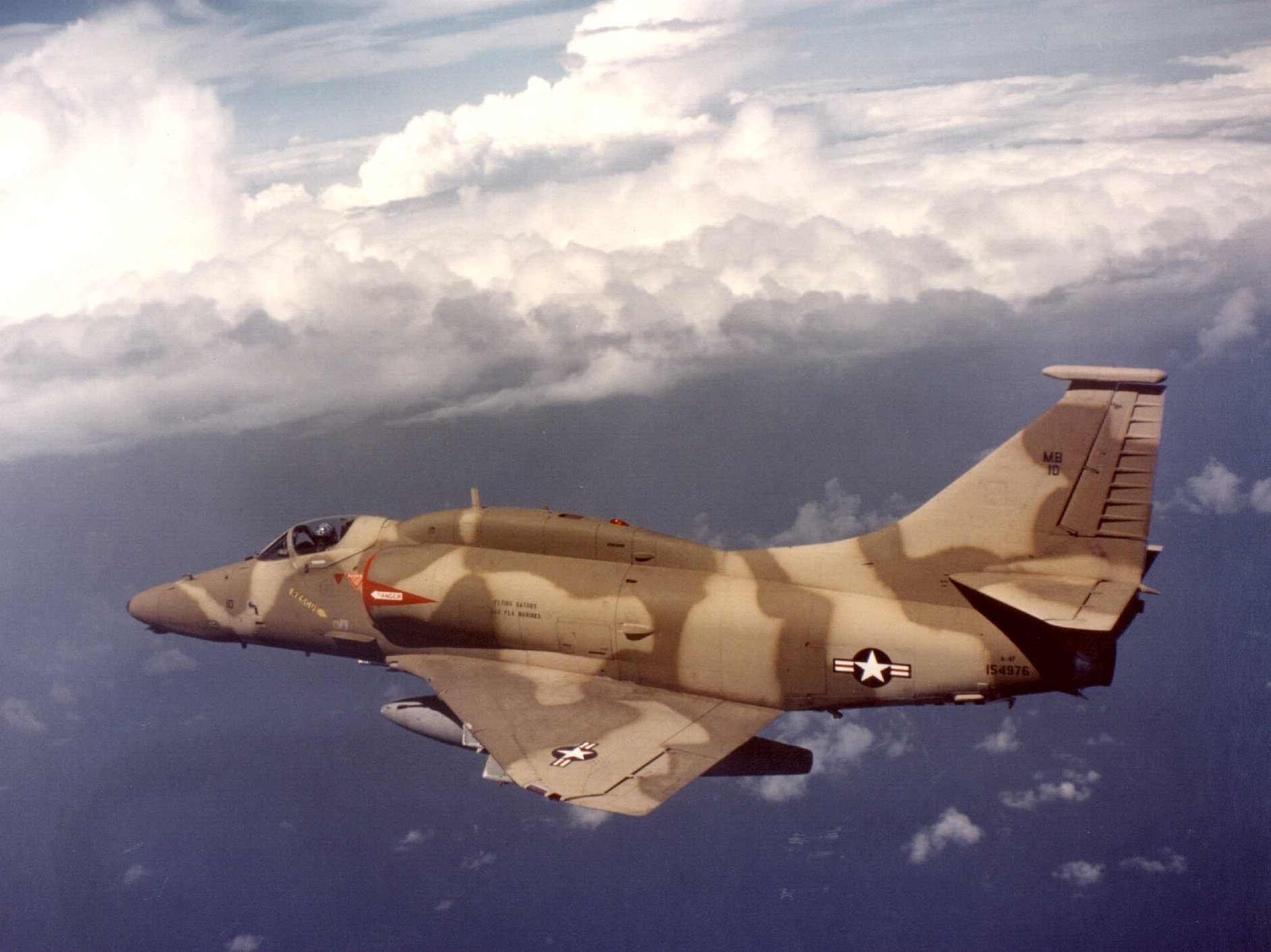 A U.S. Marine Corps Douglas A-4F Skyhawk (BuNo 154976) of Marine Attack Squadron 142 (VMA-142) "Flying Gators" in flight. 154976 was retired to AMARC as 3A0720 on 11 August 1993.